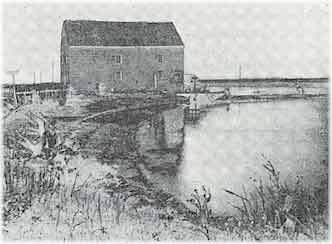 Gerritsen Creek tidal mill in the 19th Century. Original caption: “Gerritsen Creek, tidal mill in the late nineteenth century.Photo by P. Ross, courtesy A History of Long Island, 1903.”